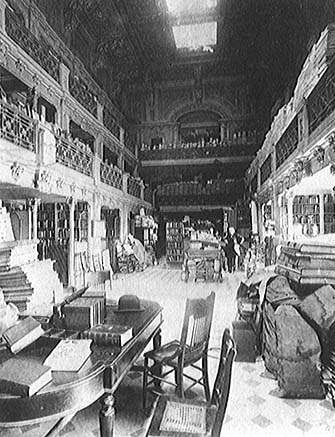 Photograph of the Library of Congress' collections in 1890. Until the opening of the Thomas Jefferson Building in 1897, the Library was housed inside the Capitol Building, where space was limited.